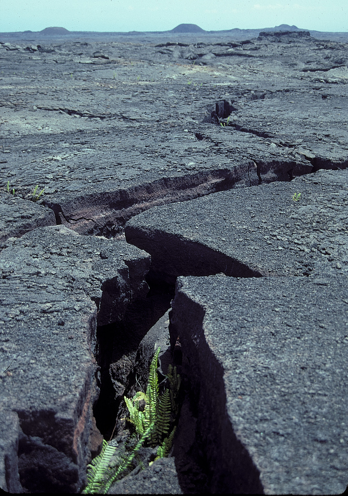 A view mauka (toward the volcano) of the East Rift Zone of Kilauea in Hawaii.